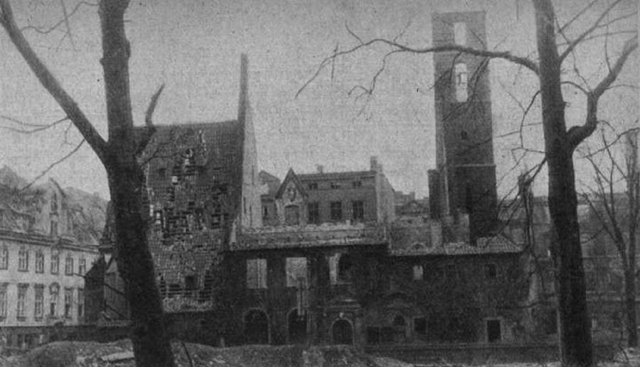 St. Christopher church in Wrocław destroyed 1945